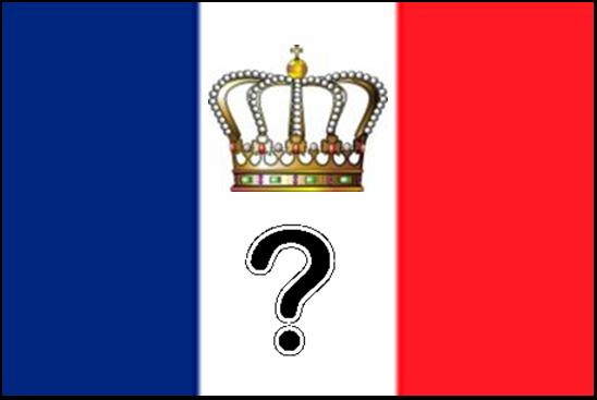 Graphic for "the present king of France", a philosophical quasi-paradox from Bertrand Russell's work on "definite descriptions" (is the statement "The present King of France is bald" true or false if France is a republic?).